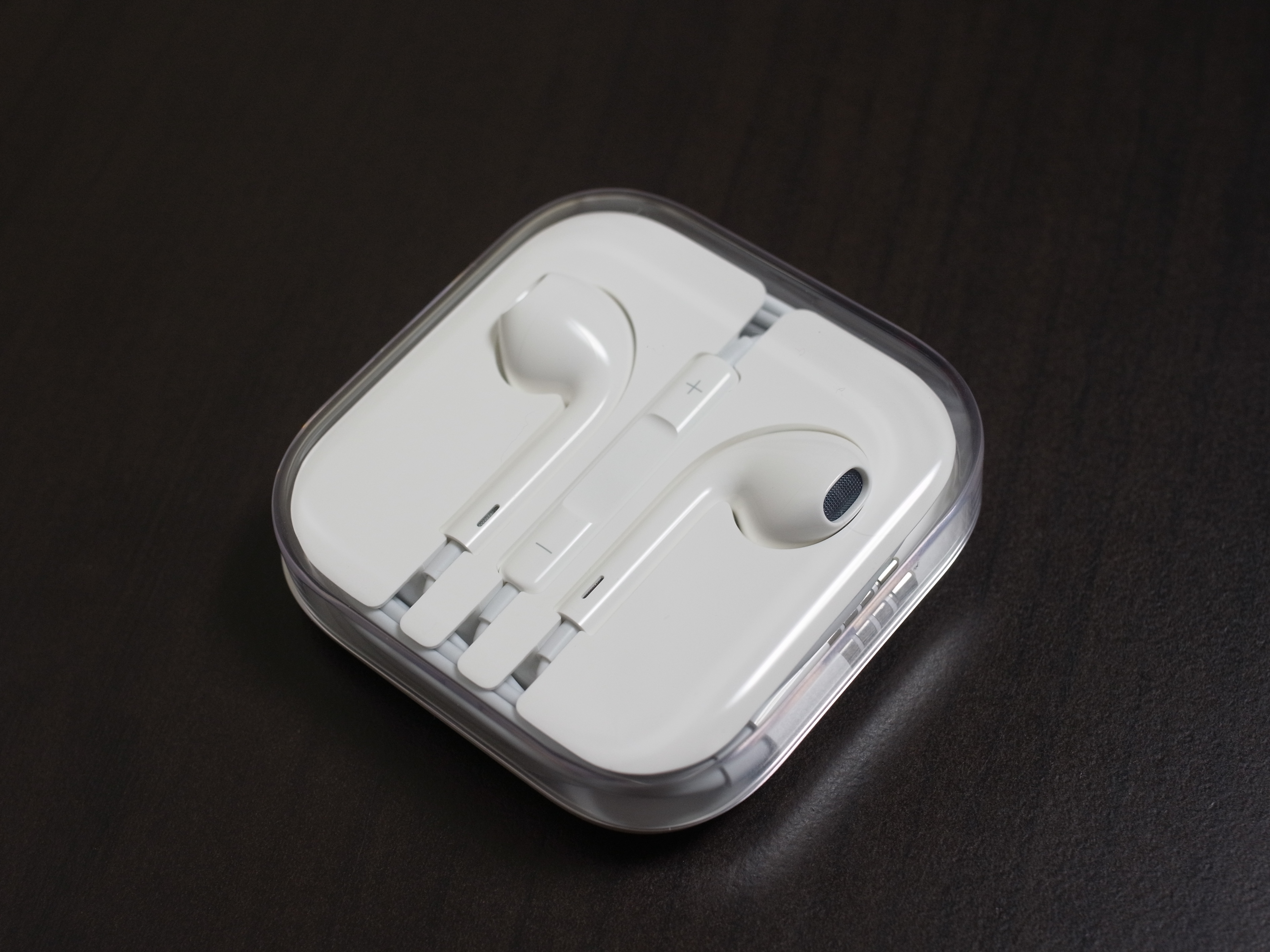 Apple EarPods